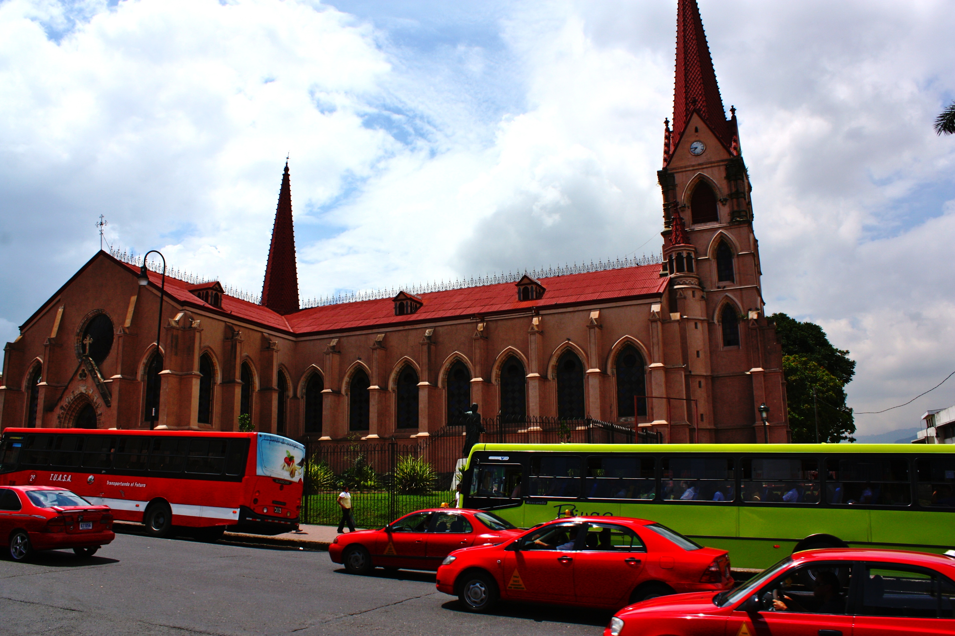 La Merced Church, San Jose, Costa Rica